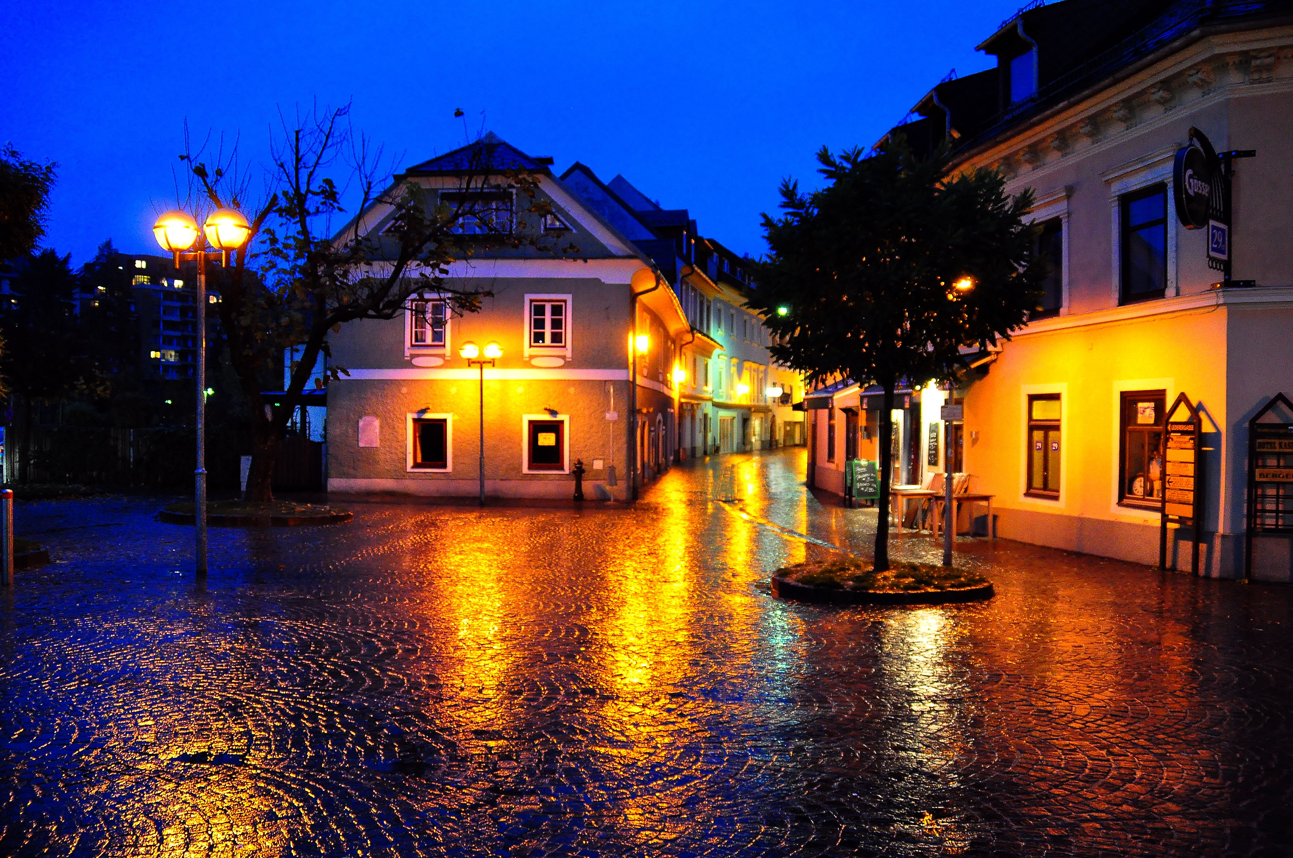 Draulaende and Lederergasse on a rainy Halloween´s eve, inner city, statutary city Villach, Carinthia, Austria, EU